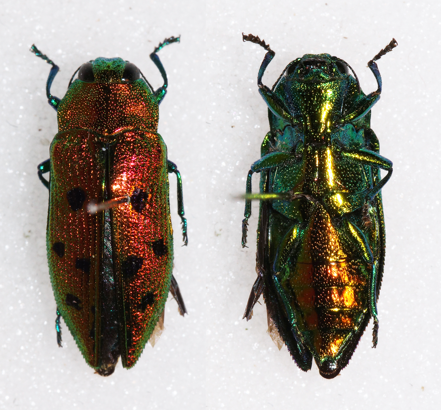 Akiyama & Ohmomo,1993 Sex: Male Data: 07-2014 - Barlig - Mt Province - North Luzon - Philippines Size: 13.5mm